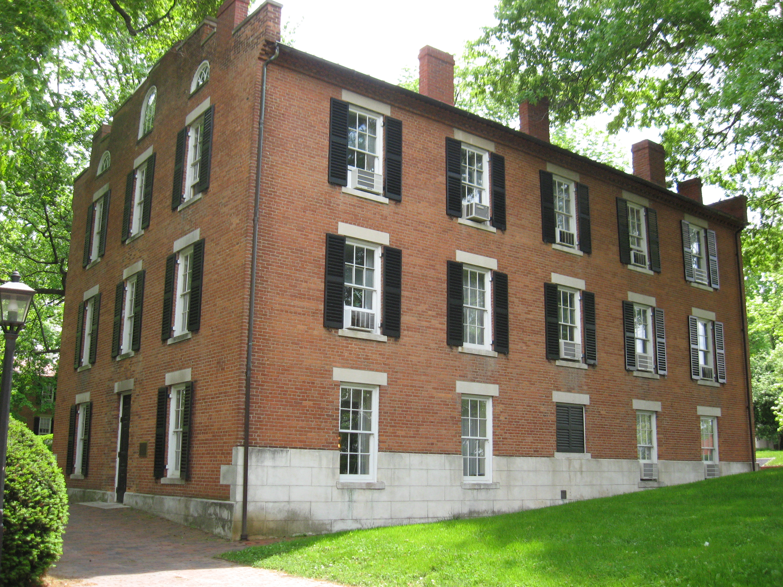 McGuffey Hall (named for William Holmes McGuffey at Ohio University (Athens, USA)